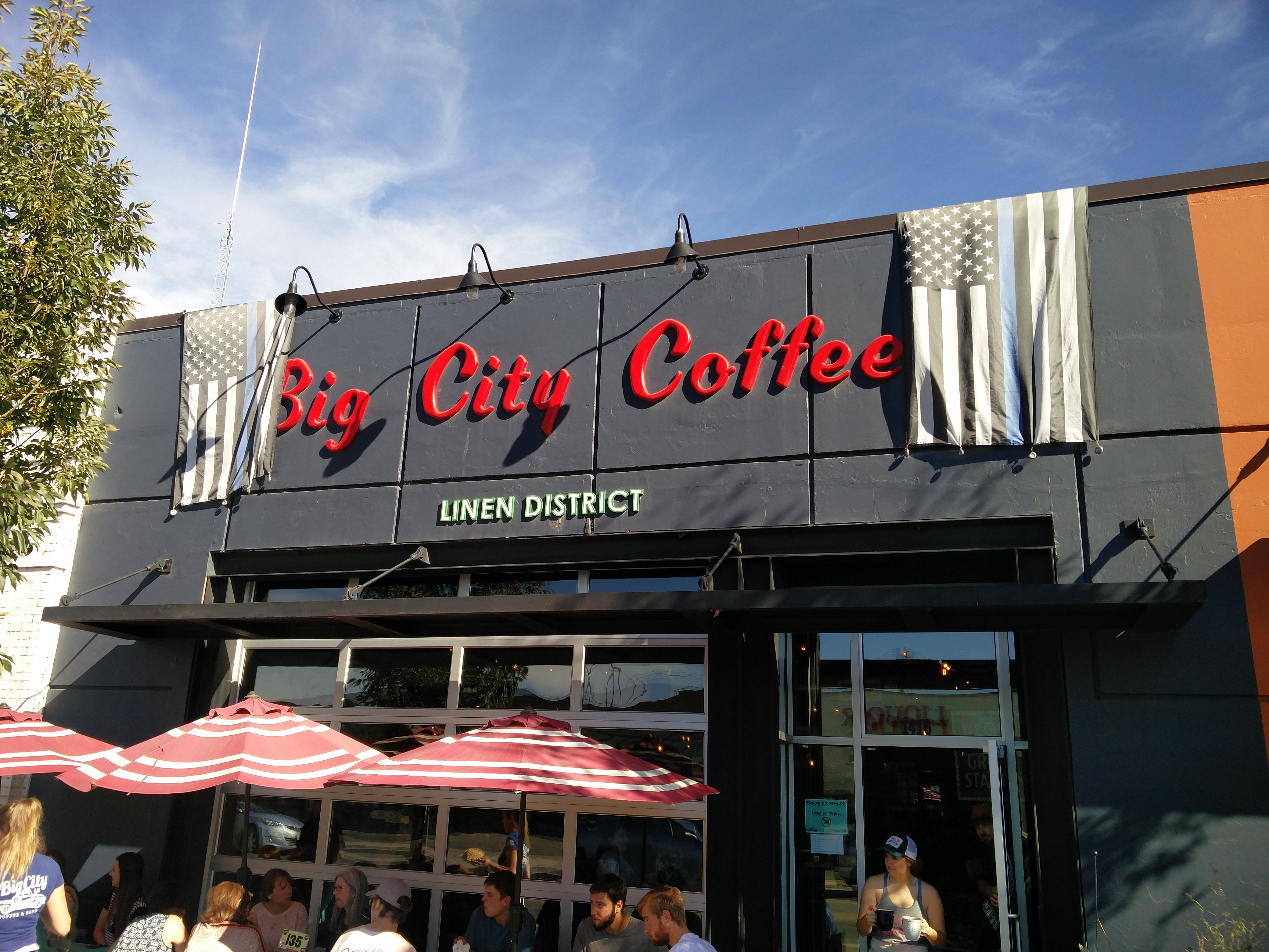 Blue Lives Matter American flags emblazon a coffee house in Boise, Idaho.